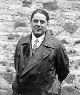 Catalan-Spanish-Mexican archaeologist and anthropologist Pere Bosch-Gimpera (1891-1974).